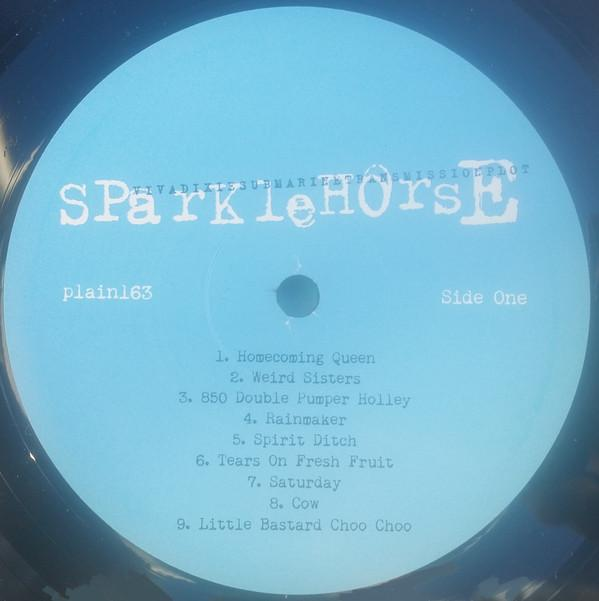 Disco del primer álbum de Sparklehorse